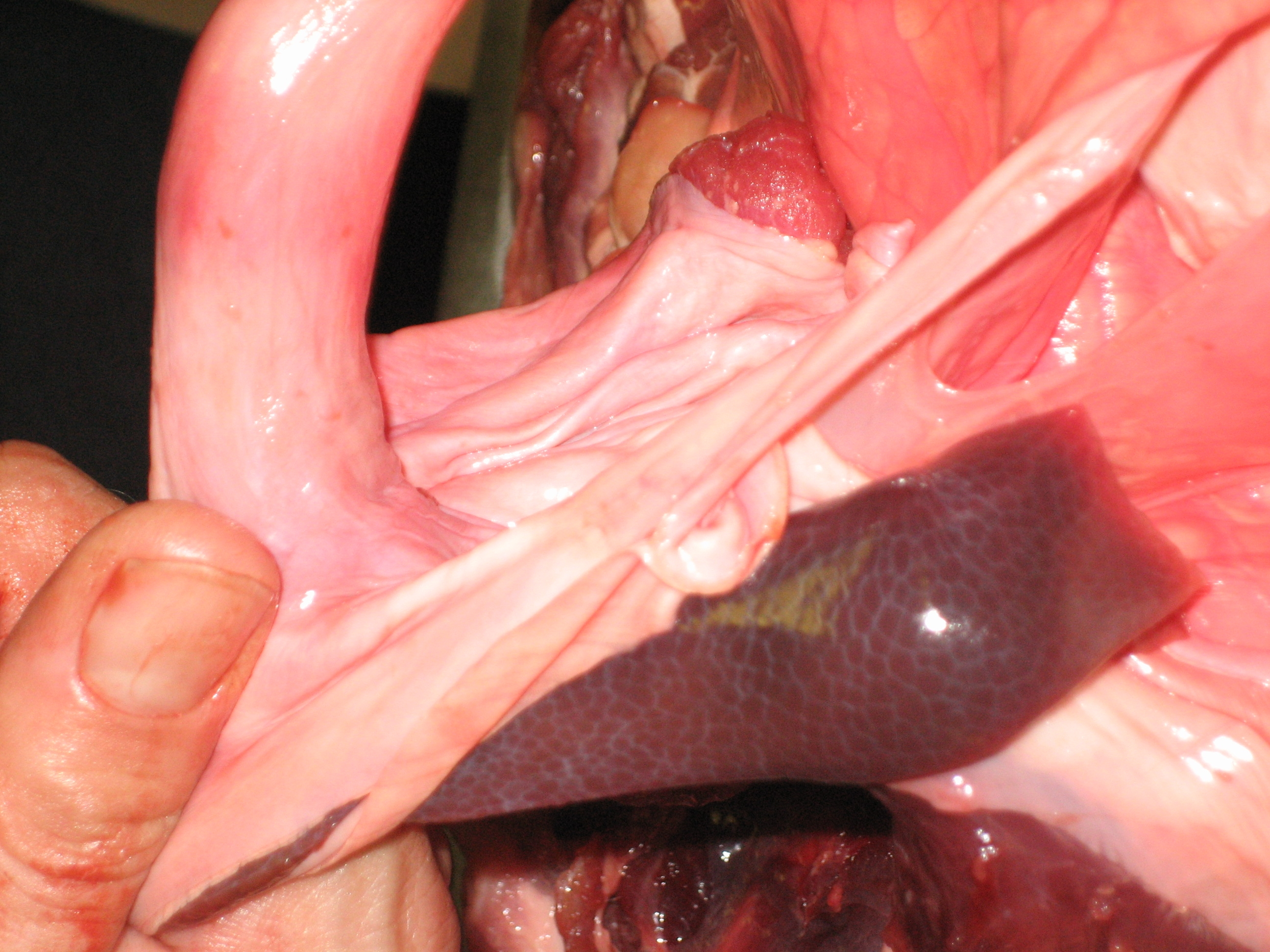 Part of liver (hepar) of a pig (Sus scrofa domestica)